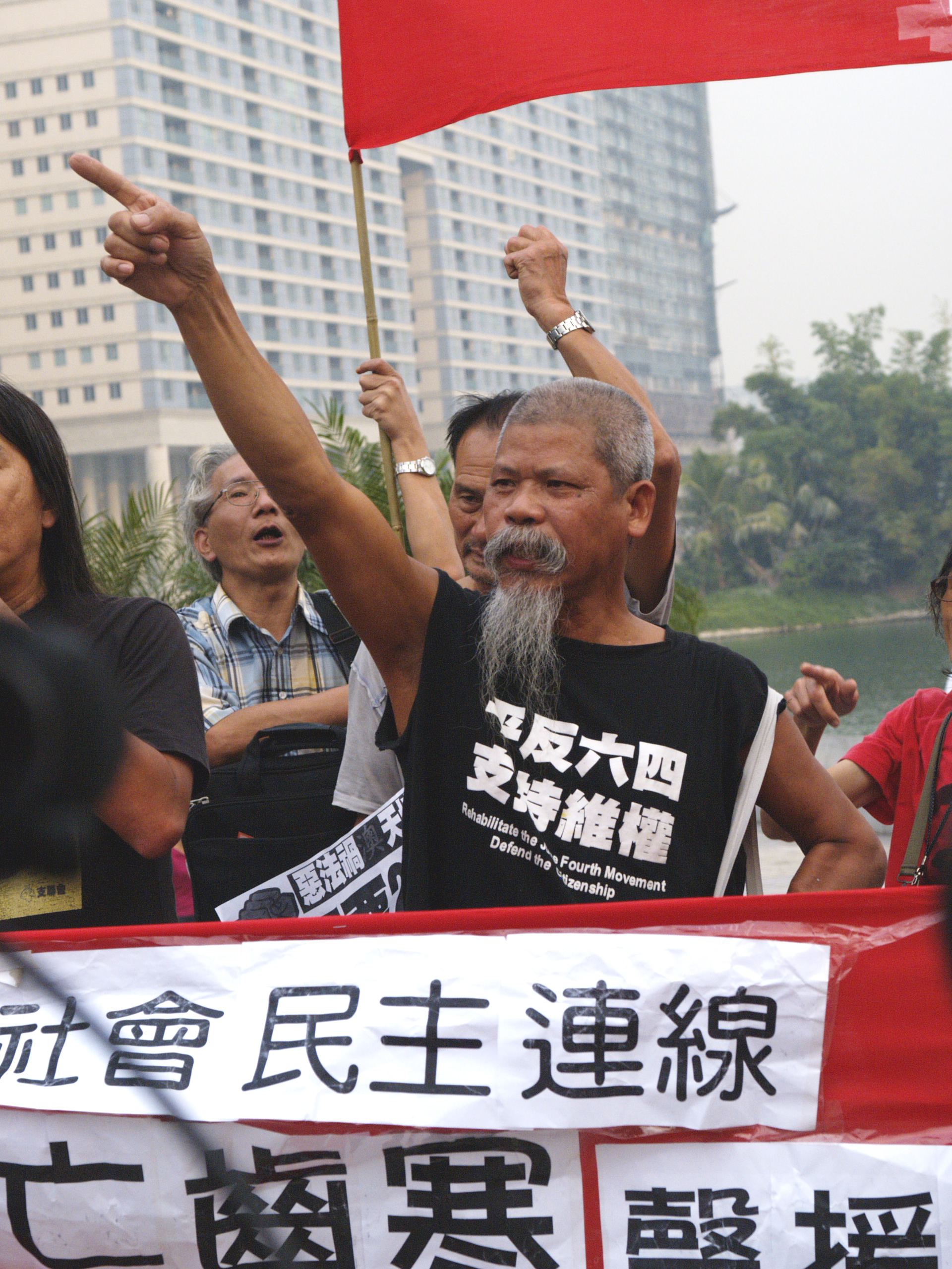 Koo Sze Yiu